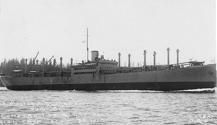 US Navy cargo ship USS Walter A. Luckenbach (ID-3171) on her trials trip on 30 May 1918